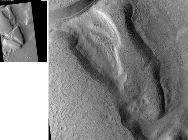 Erebus Montes edge of hills, as seen by hirise. Scale bar is 1 km long. Image was taken by the Mars Reconnaissance Orbiter's HiRISE. The HiRISE camera was built by Ball Aerospace and Technology Corporation and is operated by the University of Arizona. Image courtesy NASA/JPL/University of Arizona.